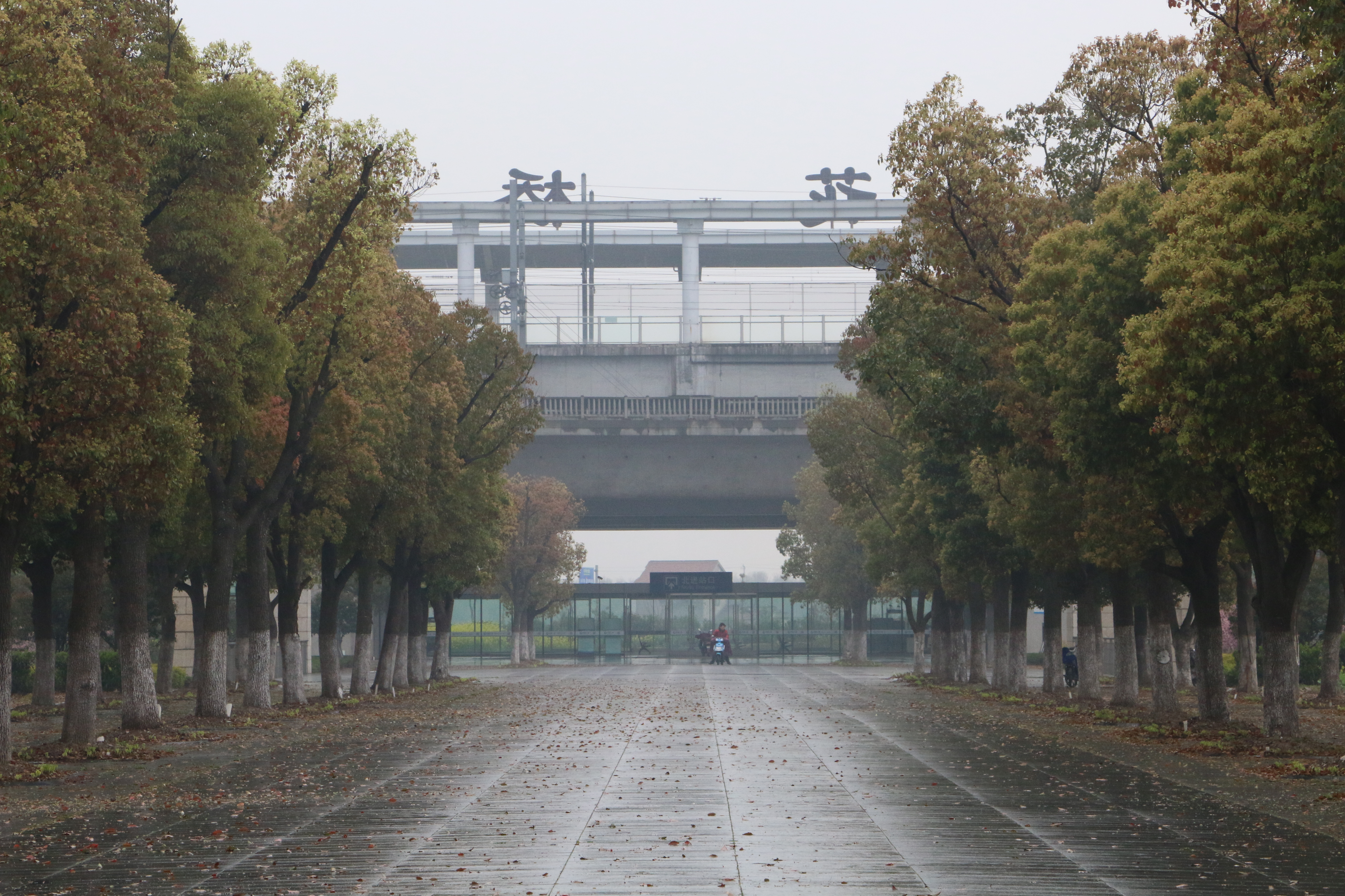 201604 Facade of Huaqiao Station